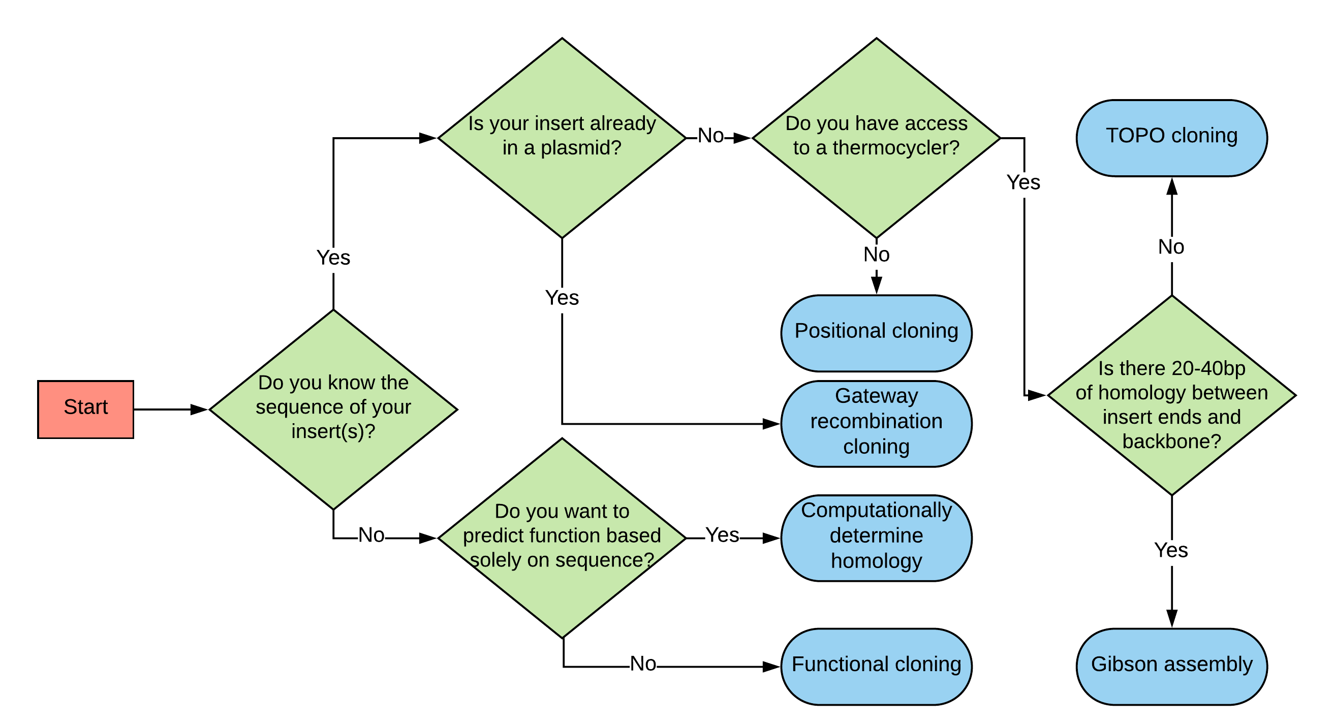 Flow chart of cloning strategies to help pick the optimum method based on needs.